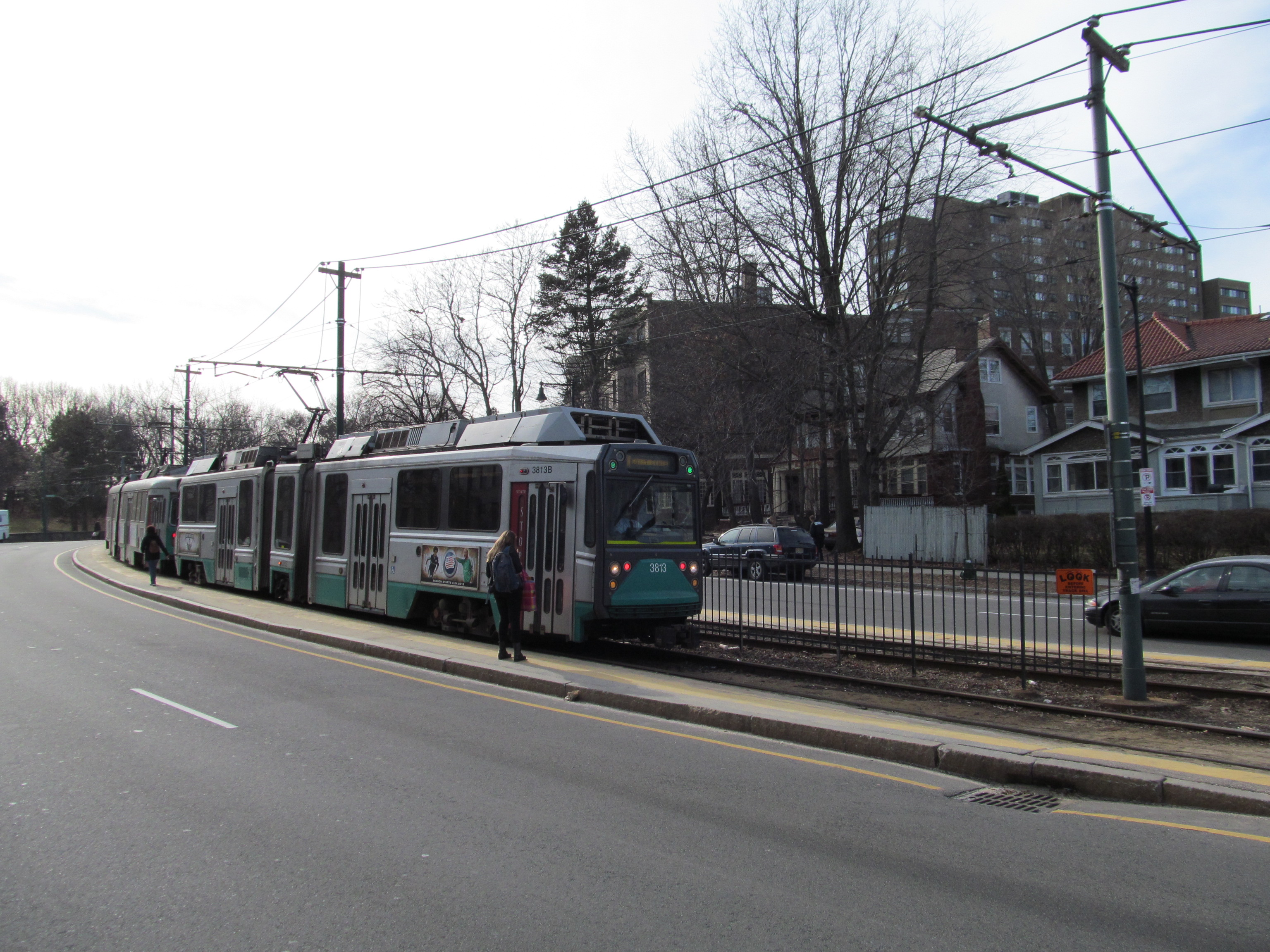 Chestnut Hill Avenue MBTA station inbound, Chestnut Hill Massachusetts